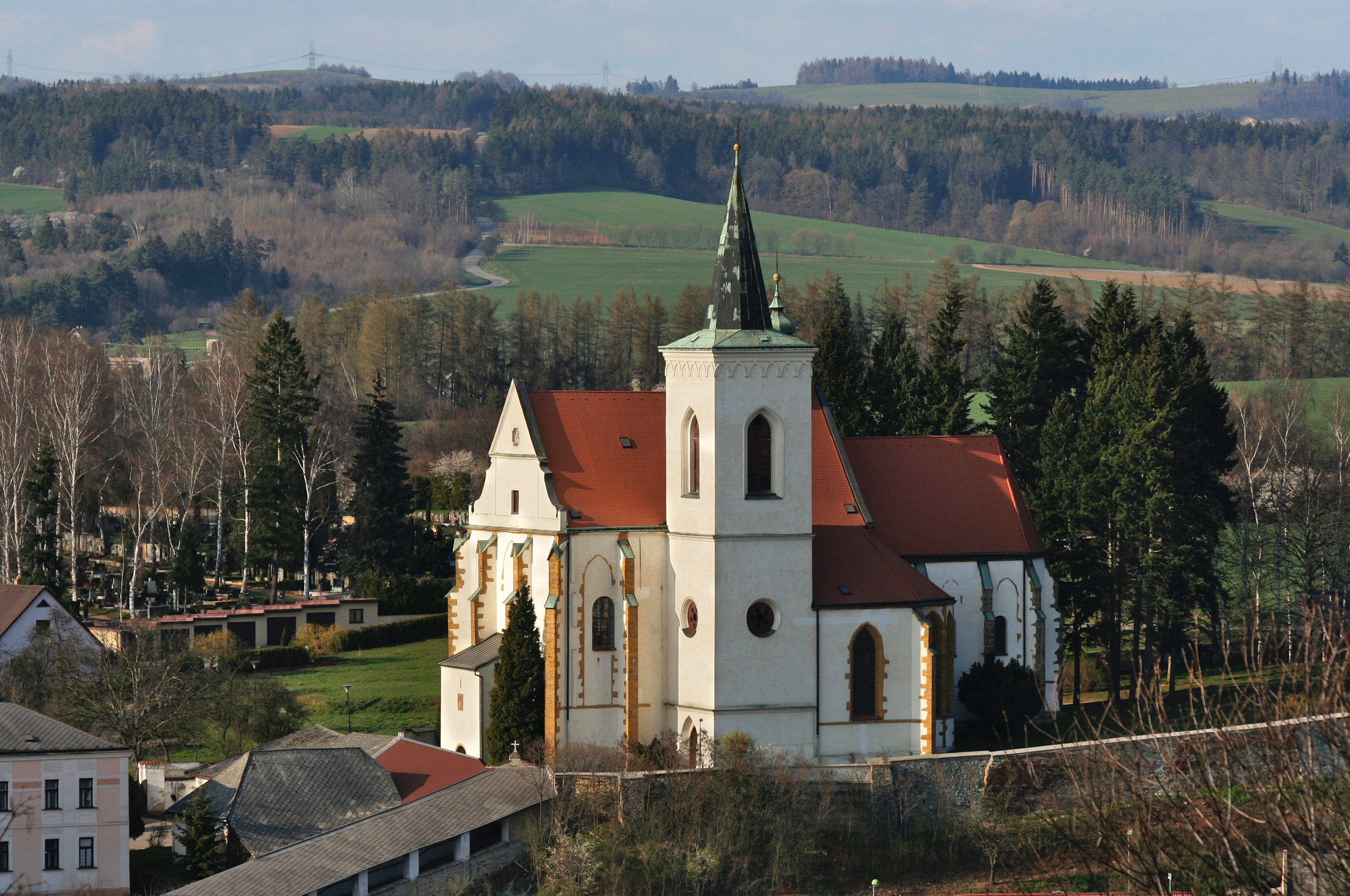 Church in Letovice